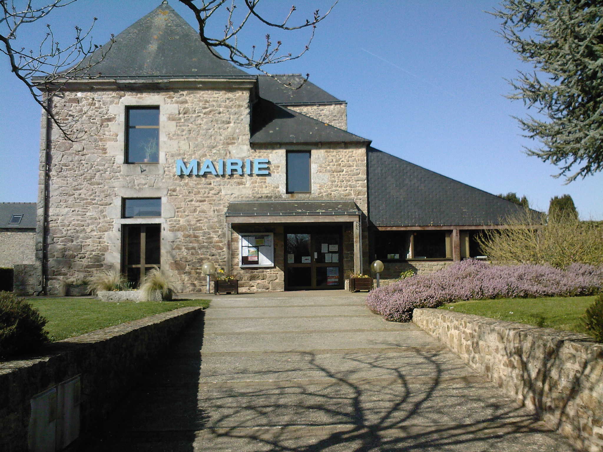 Town hall of Boquého